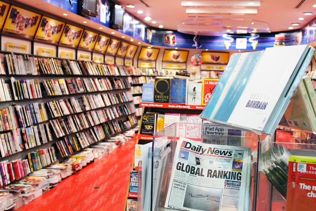 The bookshop at Bahrain International Airport's departures area hold memories of many readers passing time of thier flights with a great read.